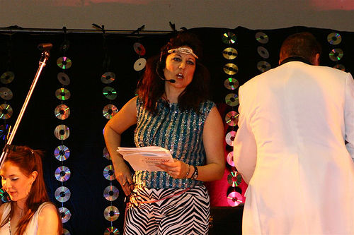 School PTA hosted a 70's Disco Night Auction.